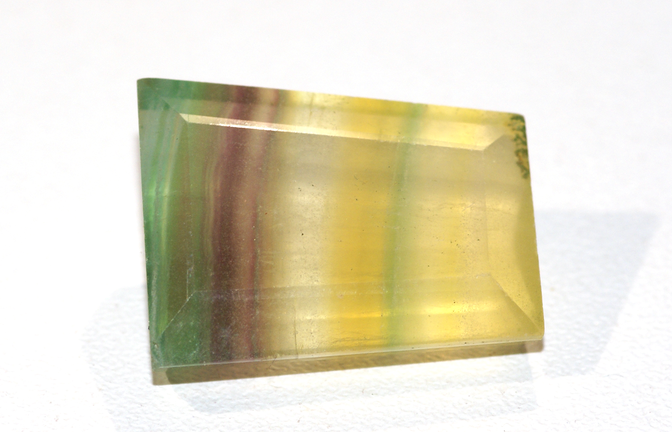 Fluorite facet cutting - Provenance : Argentina